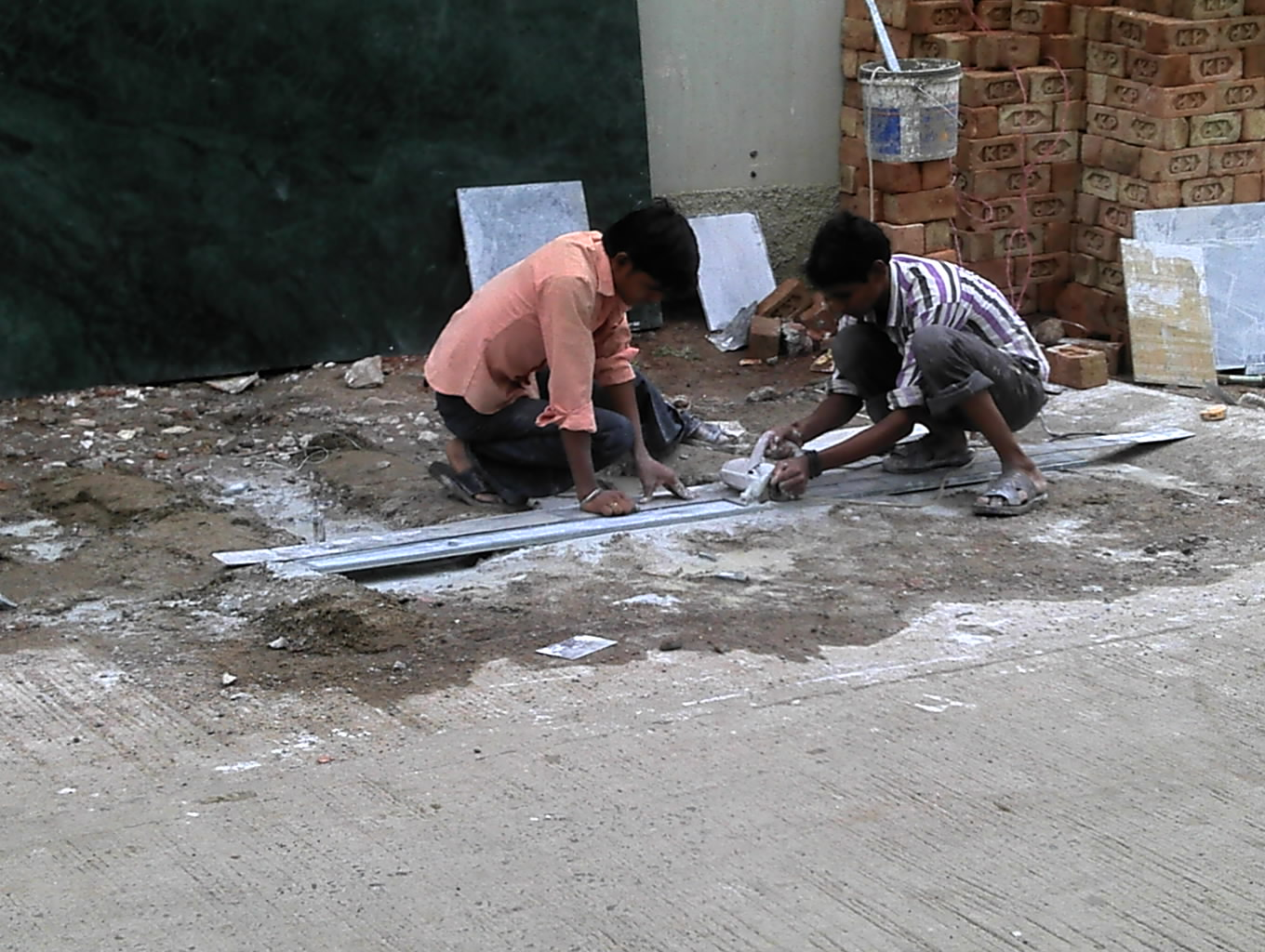 Workers cutting marble to be fitted in a home. They are working without any protective gear like ear muffs or protective glasses or gloves.